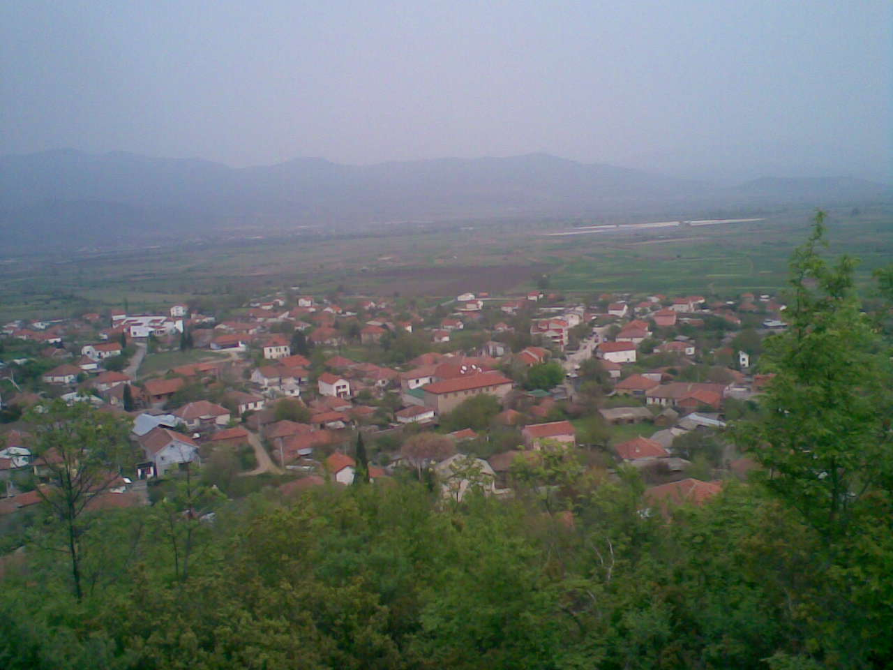 The village Miravci in the Republic of Macedonia